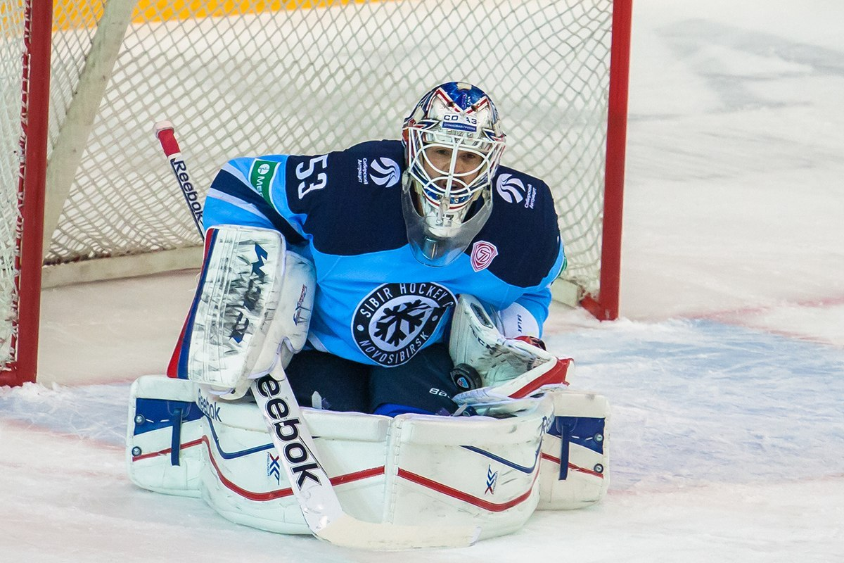 Salak